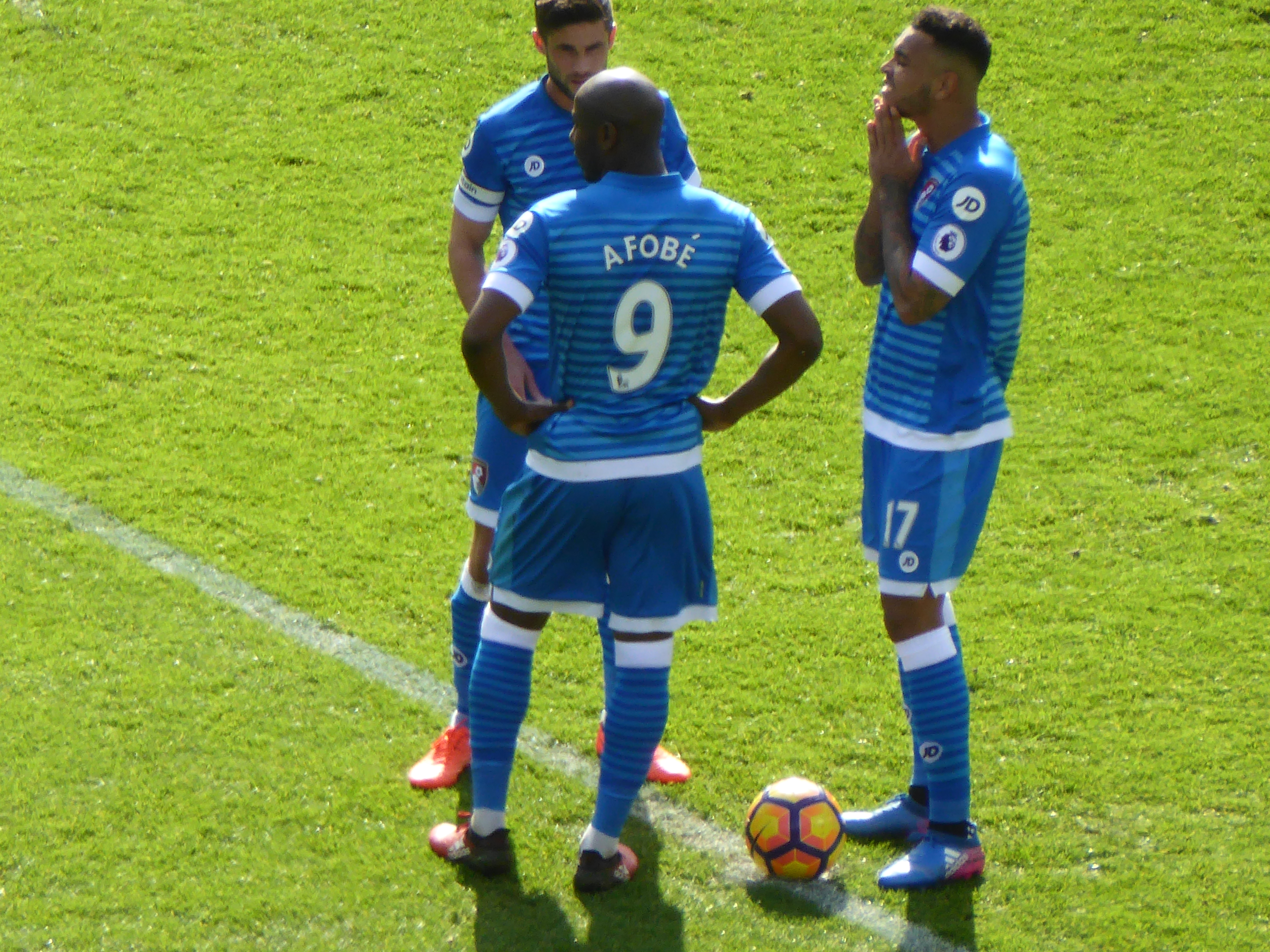 Manchester United v AFC Bournemouth (1-1), Premier League, Old Trafford, Manchester, 4 March 2017